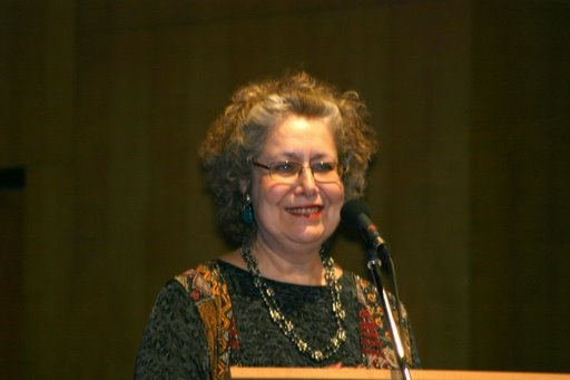 Mira Zakai, Professor of Voice and Alto singer from Israel, at a lecture in Leipzig